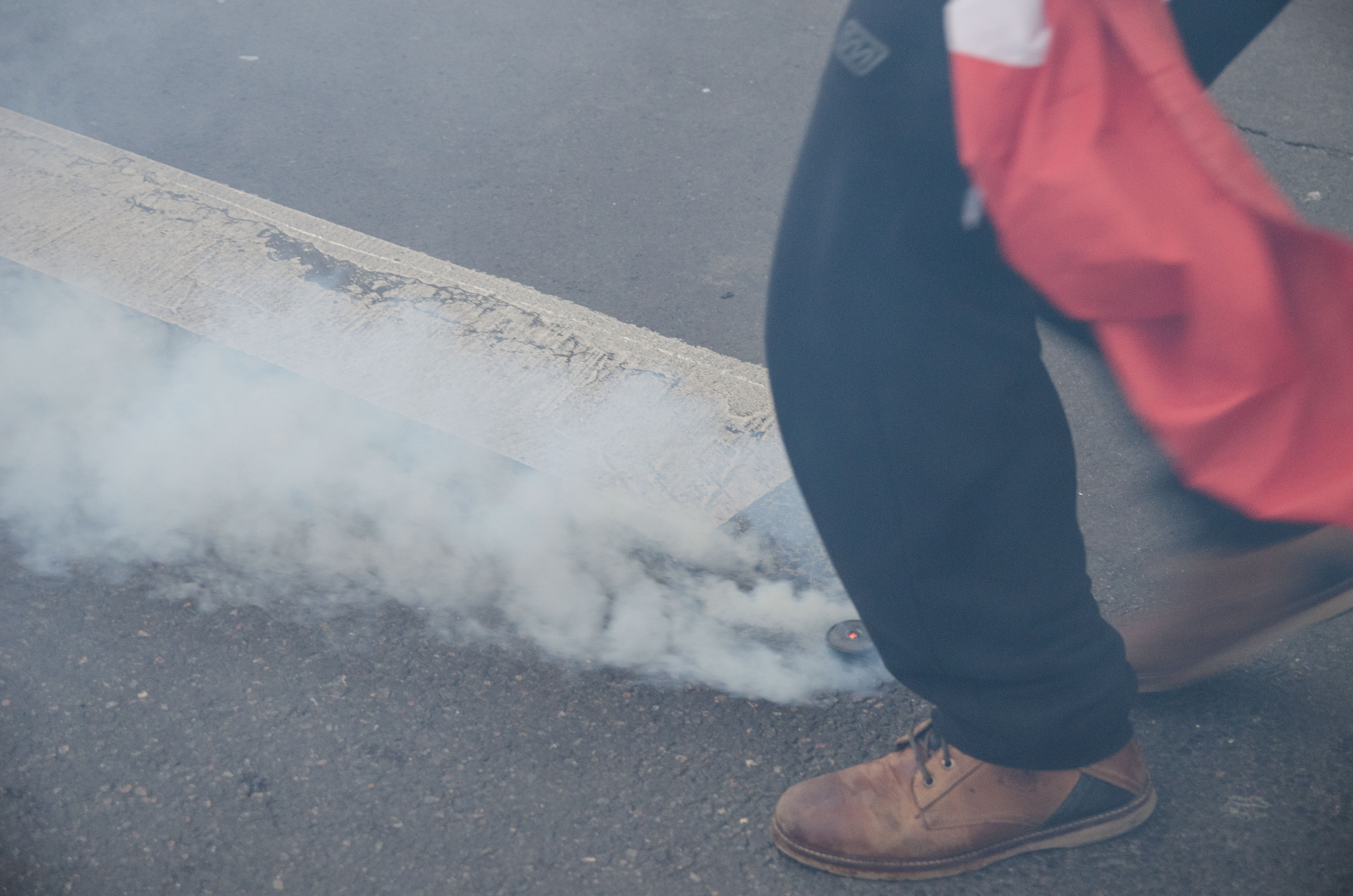 Mouvement des gilets jaunes, Paris, 05 Jan 2019